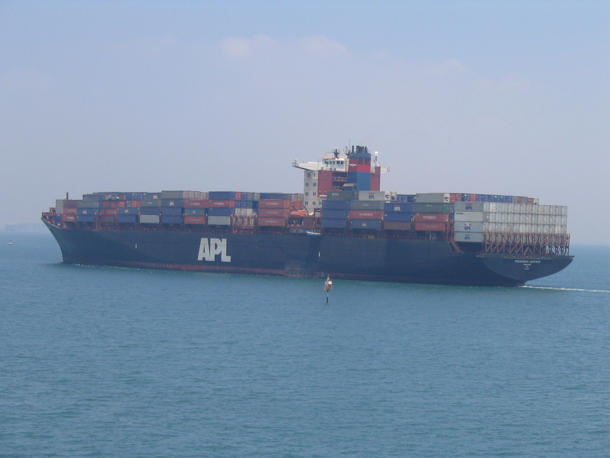 The U.S. Flag APL M/V President Jackson in the Suez canal (2009)